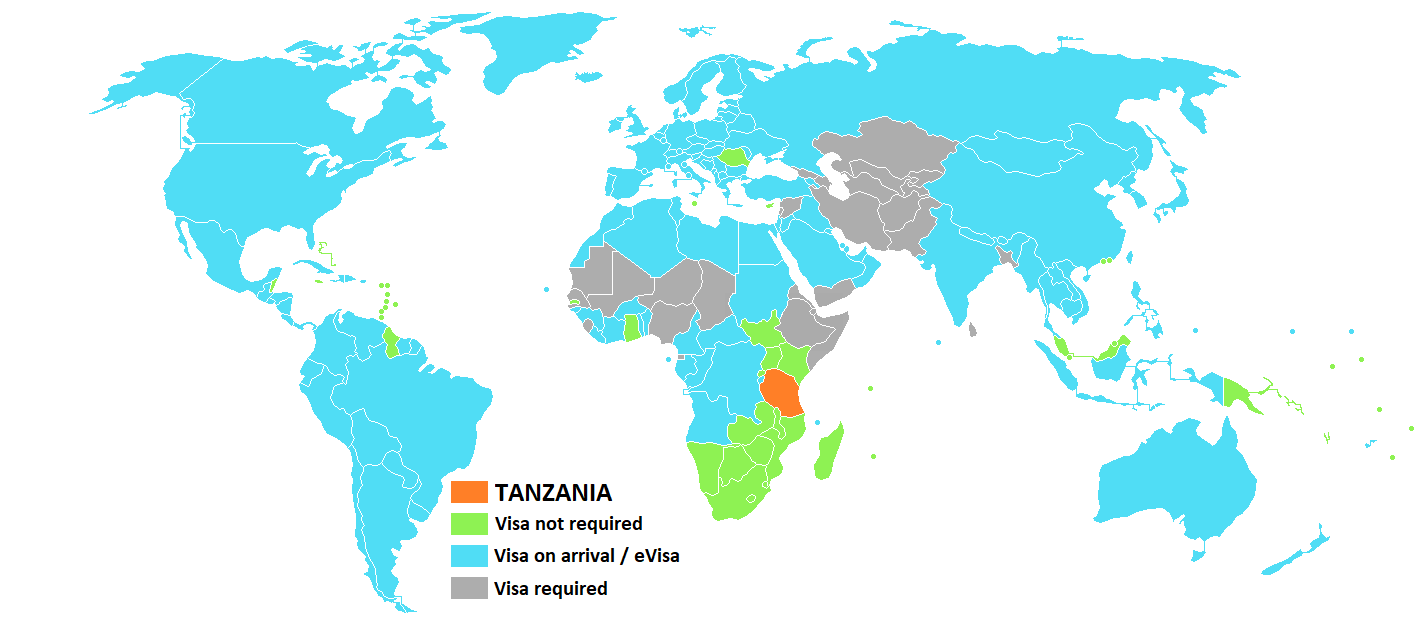 Visa policy of Tanzania Tanzania Visa not required Visa on arrival / eVisa Visa required